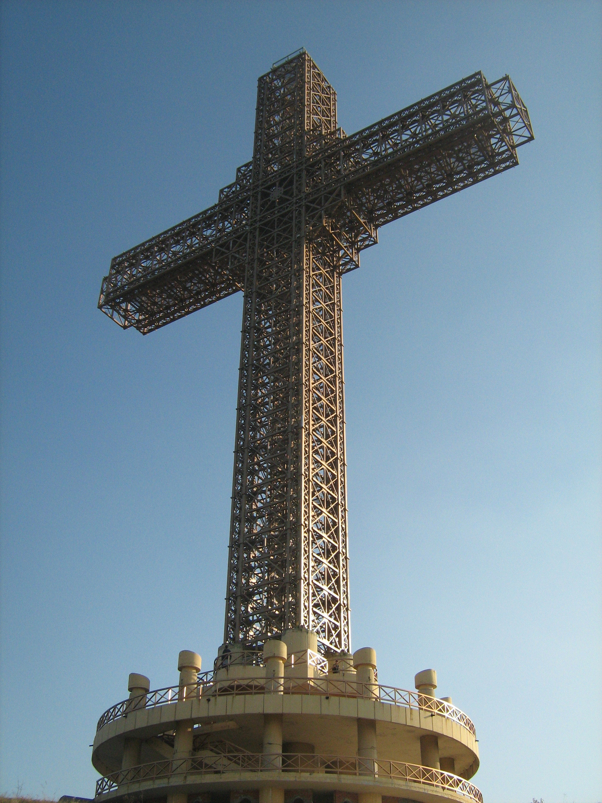 Millenium cross in Skopje